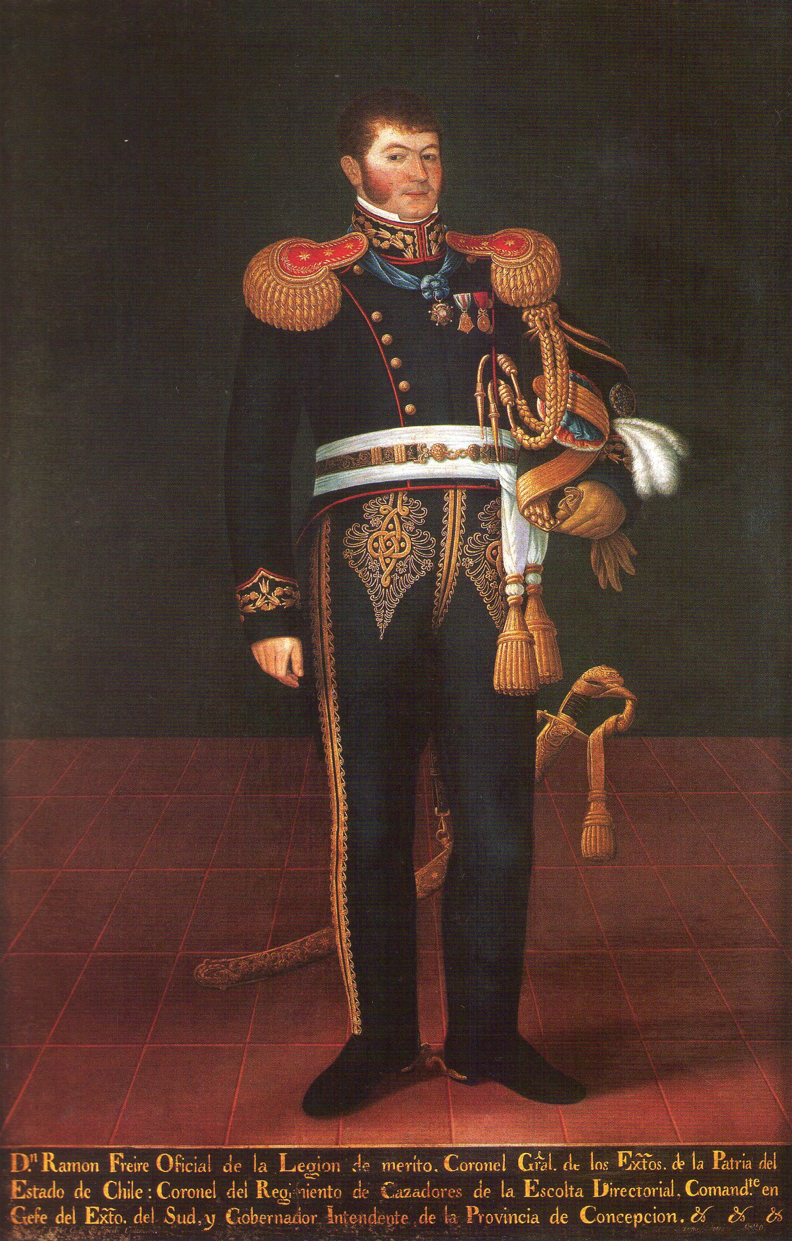 Portrait of Ramon Freire